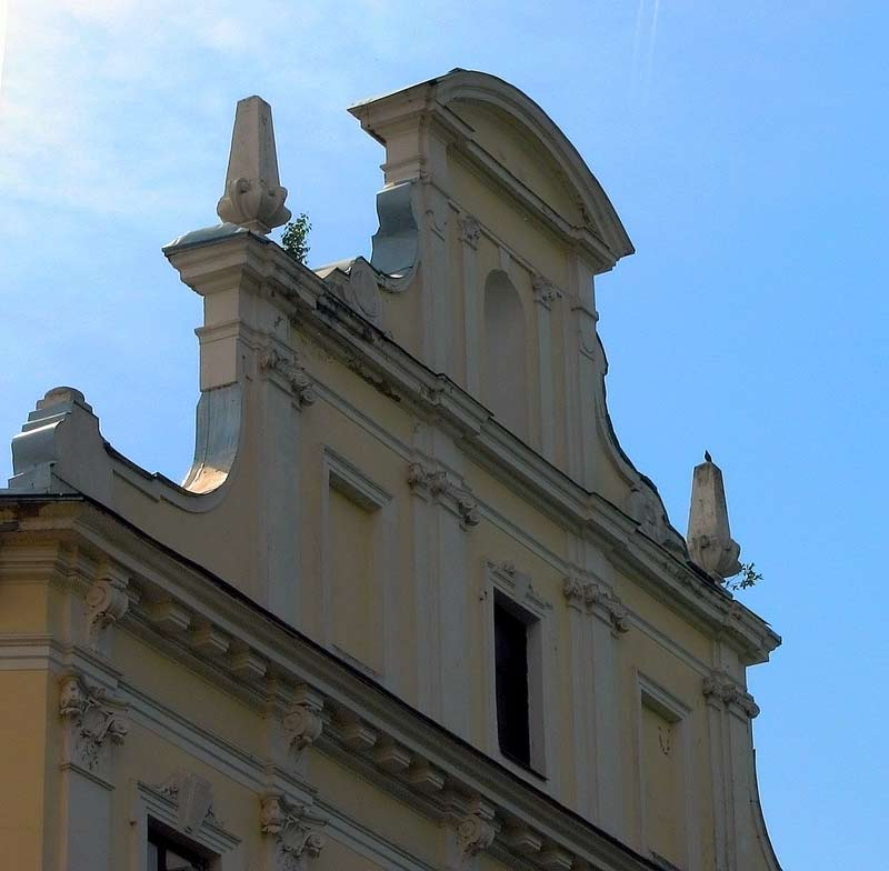 Monastery of Sacre Coeur in Lviv, Ukraine